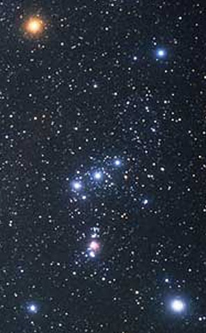 Constellation of Orion